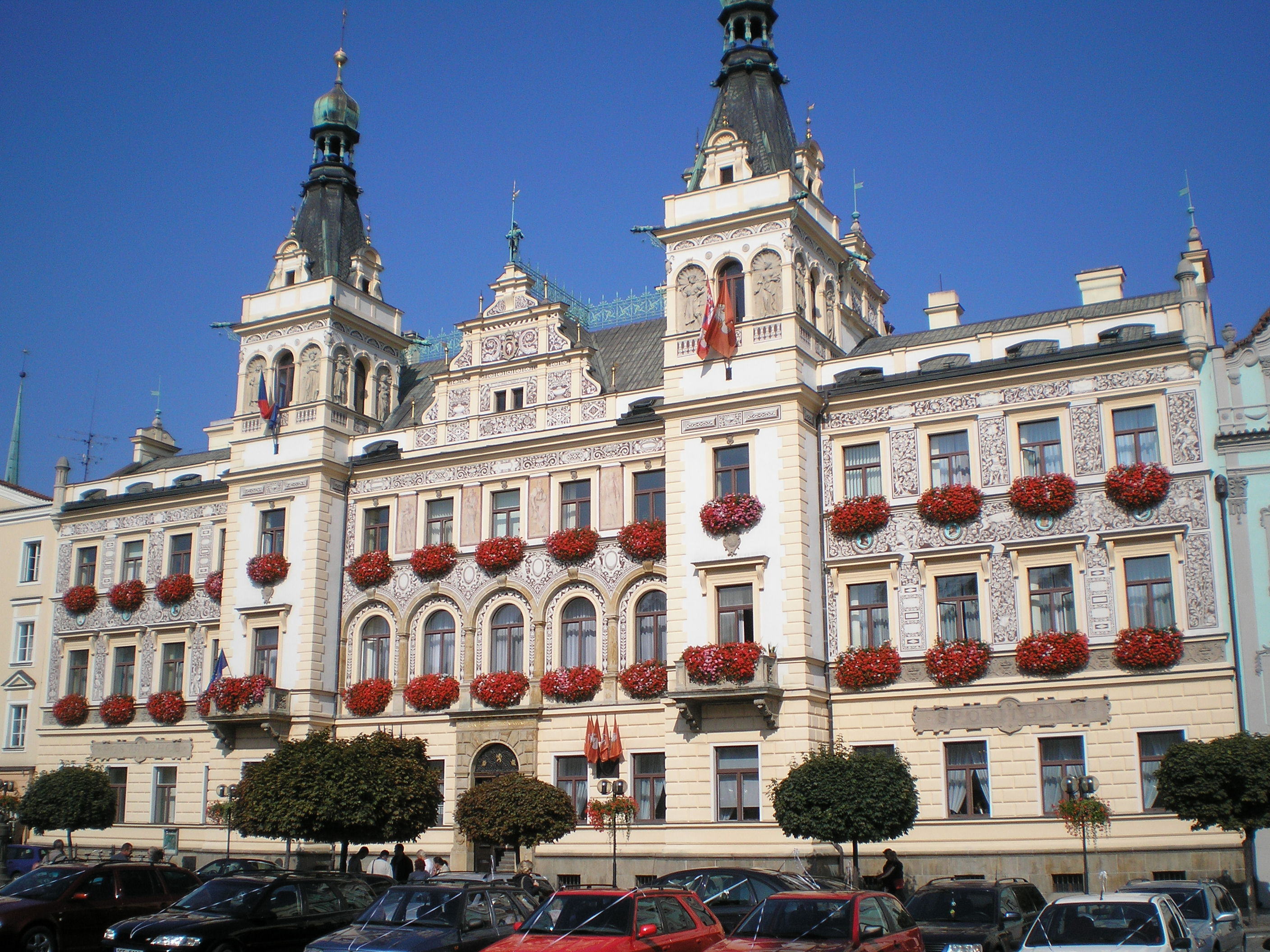 Pardubice townhall1